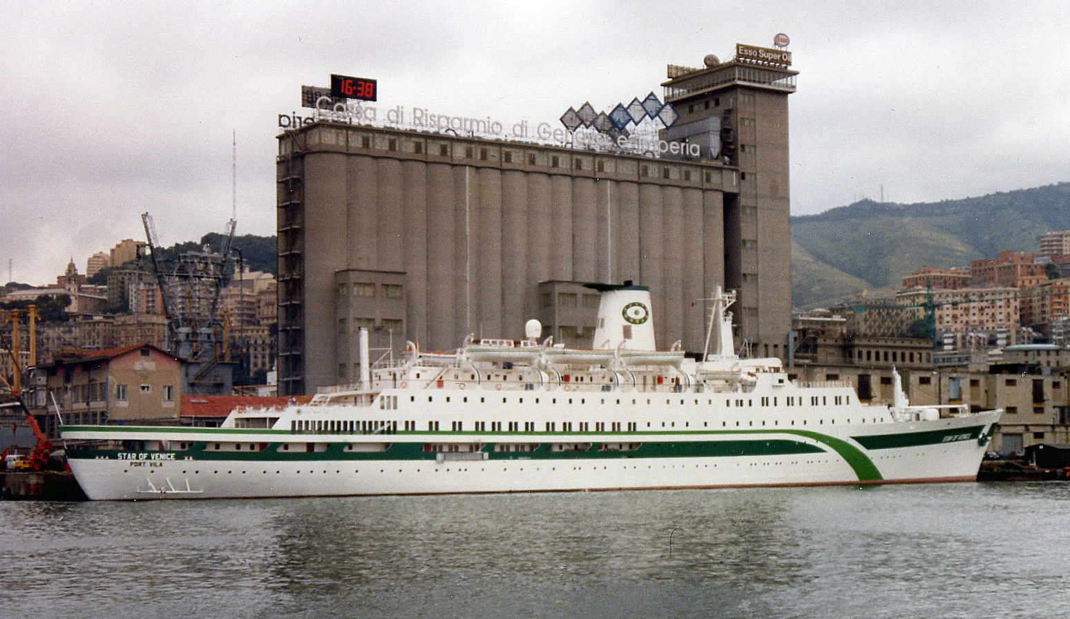 The cruise ship Star of Venice moored at Genoa on July 4, 1992.